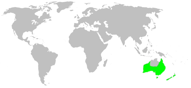 Pararchaeidae habitat distribution, drawn after Platnick: World Spider Catalog 7.0. This is not a precise rendering of the distribution! If you have better information, please replace this map, or send me the info, and i will redraw it.